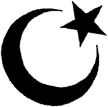 Islam star and crescent